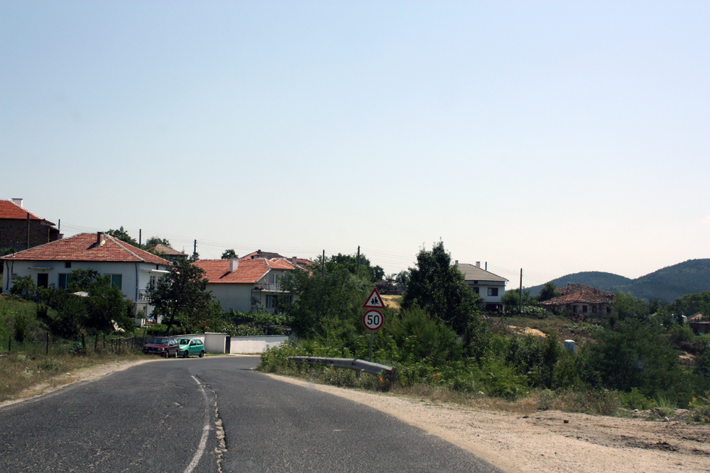 Entrance into Rogozche village